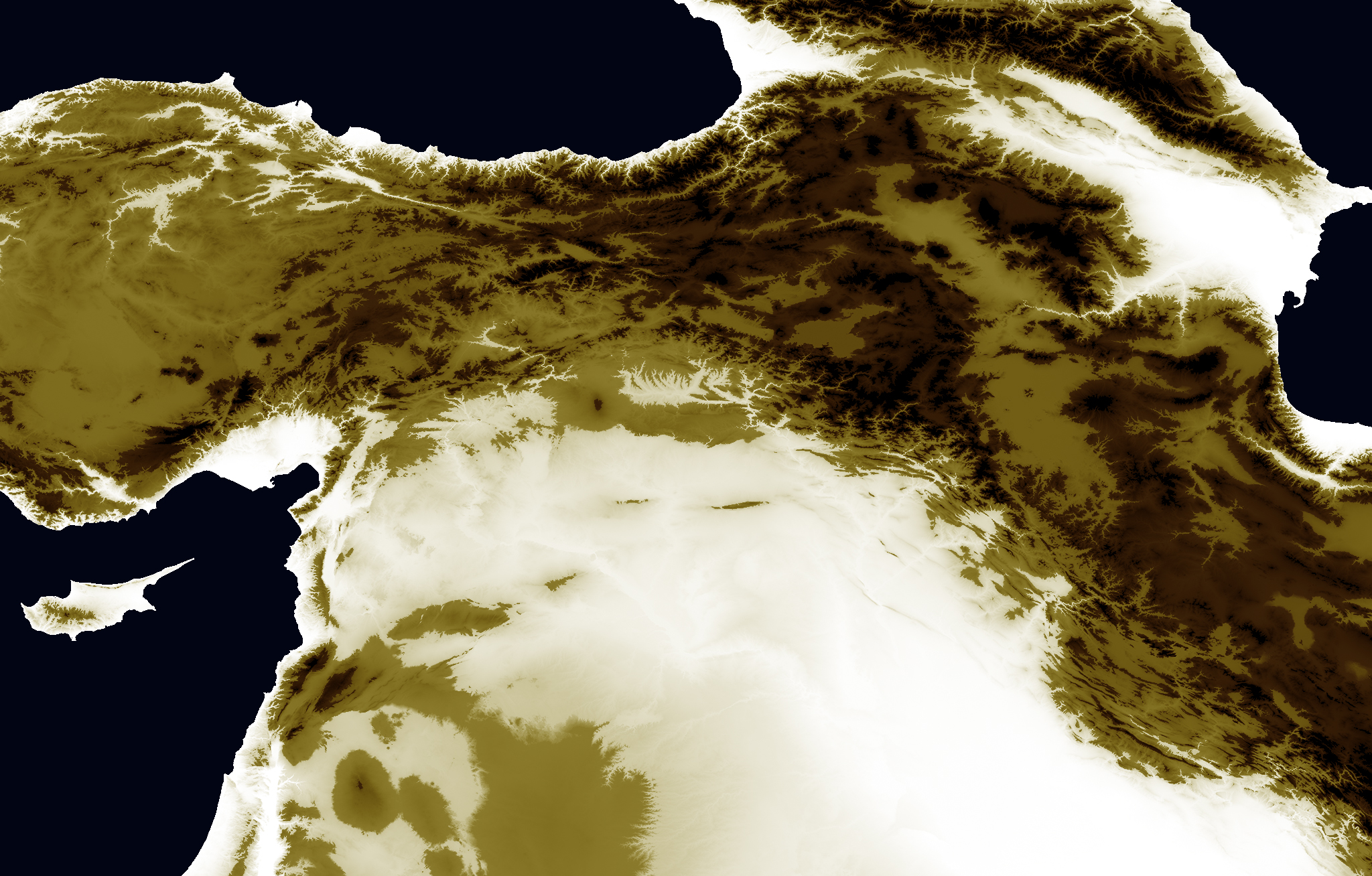 A false color height map using contrasting and exaggerated colors to emphasize the natural shape of the Armenian Highlands. Lowlands Highlands Mountainous Mountain Ranges